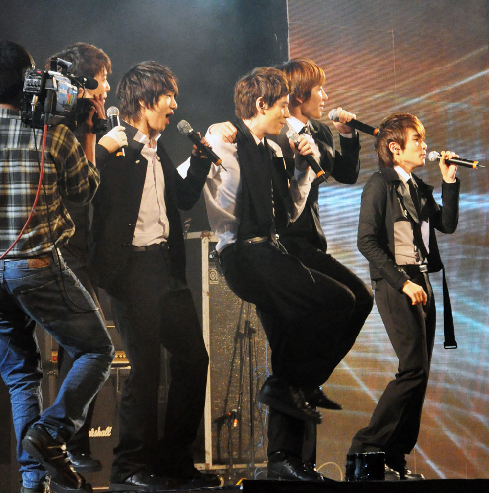 In the first performance in Vietnam, Korean pop stars Super Junior help spread the word about the risks of human trafficking.